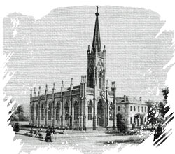 Lithograph take from stone, in the St. Mary Basilica Archives collection.